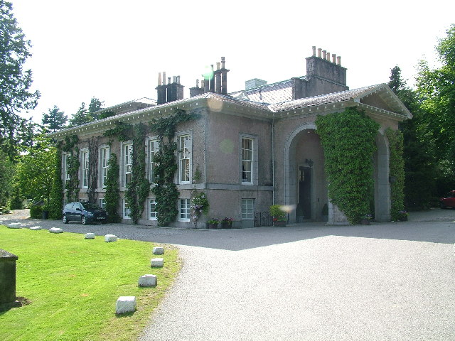 ThainstoneHotel.